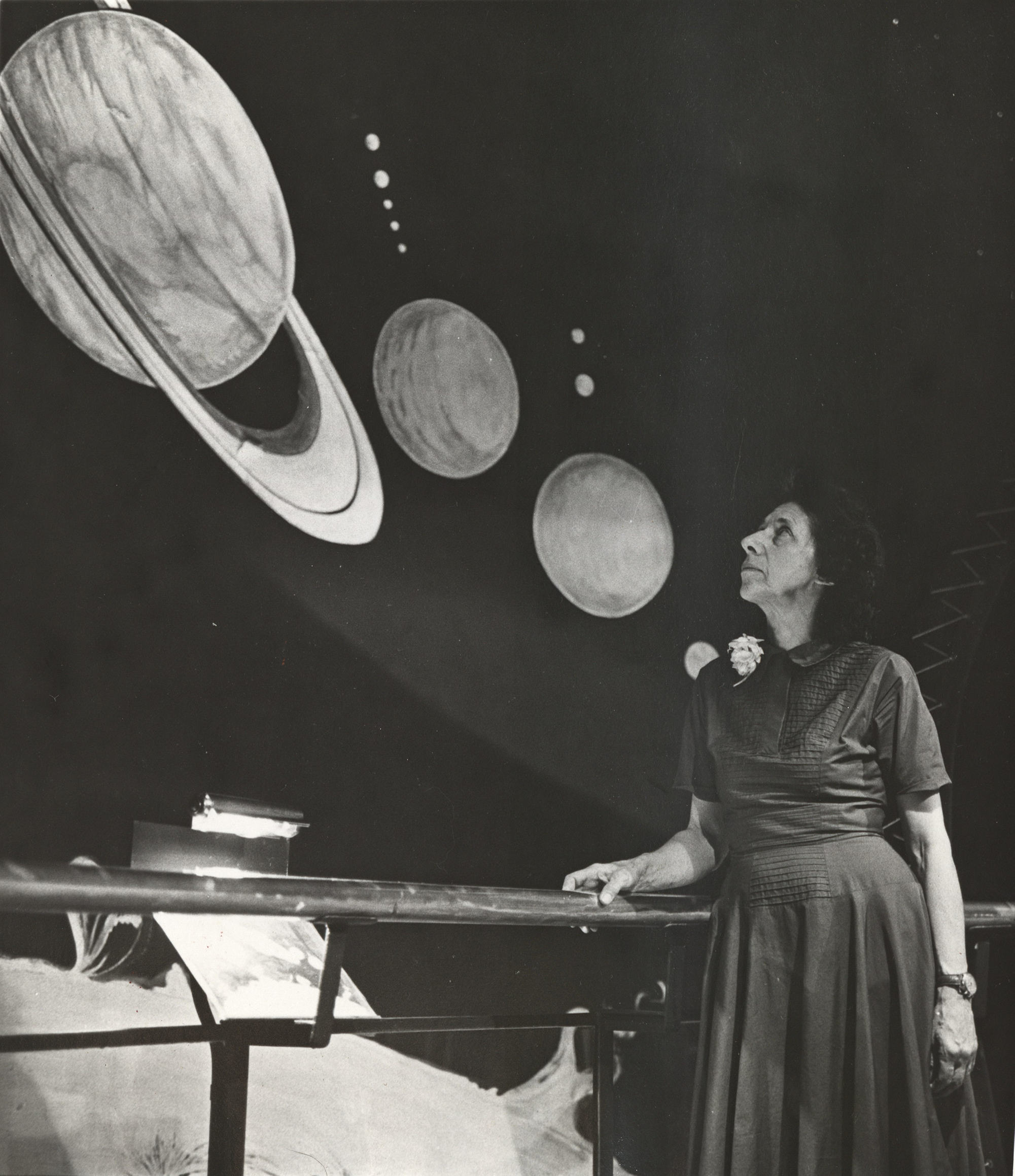 From the Harvard University Archives, this image is of Frances Woodworth Wright viewing an exhibit about planetary bodies, likely at the Harvard Observatory.